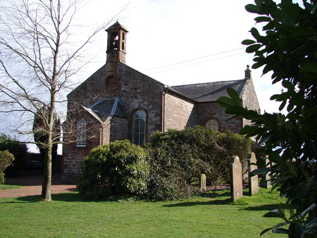 Dornock Parish Church Dornock Parish Church dates from 1793, with an 1855 bellcote. The churchyard contains C18 gravestones and 3 hogback stones (carved stones).